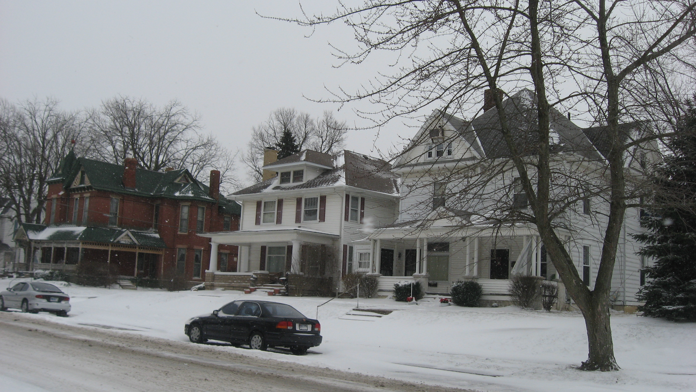 Houses on the southern side of of E. Clinton Street in Frankfort, Indiana, United States. From left to right they are: 603 E. Clinton: Queen Anne, built 1885 557 E. Clinton: American Foursquare, built 1910 553 E. Clinton: Vernacular architecture, built 1910 This neighborhood is part of the Christian Ridge Historic District, a historic district that is listed on the National Register of Historic Places.